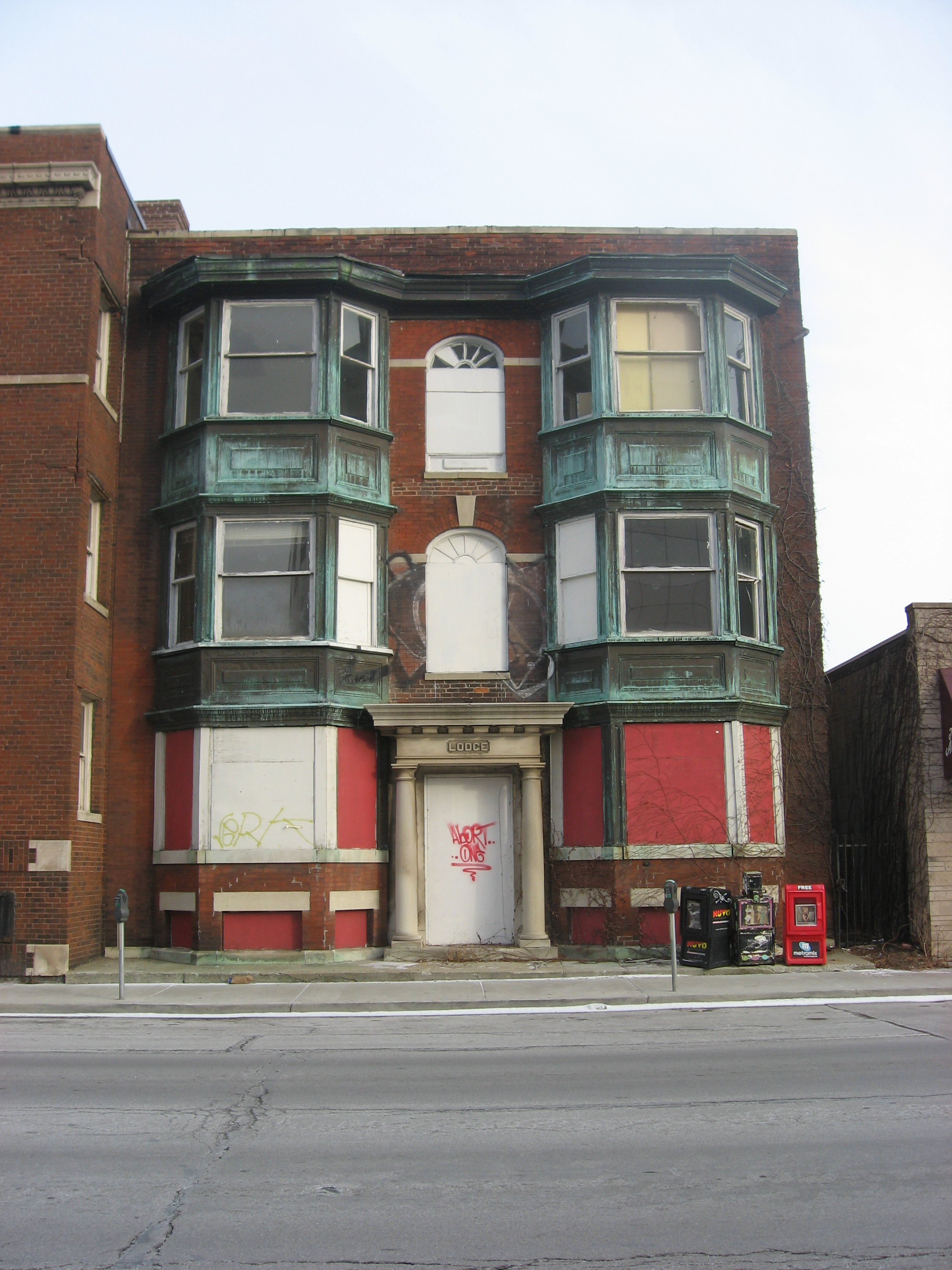 Front of The Lodge, located at 829 N. Pennsylvania Street in Indianapolis, Indiana, United States. Built in 1905, it is listed on the National Register of Historic Places as one of the "Apartments and Flats of Downtown Indianapolis Thematic Resources".